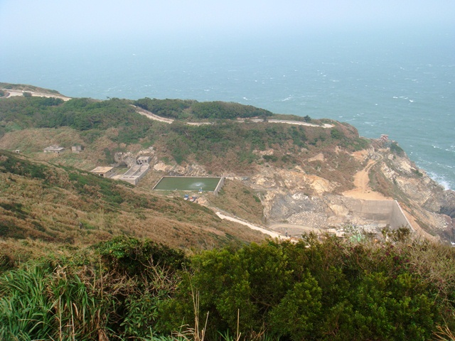 Ledaoao, Xiju, Matsu Island